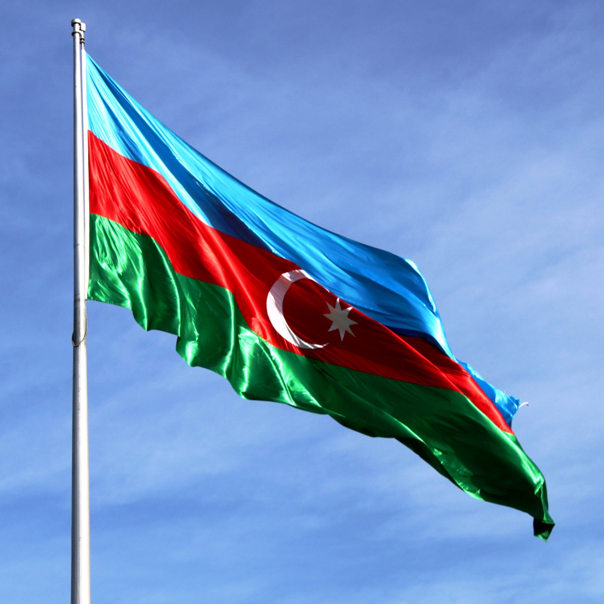 National flag of Azerbaijan